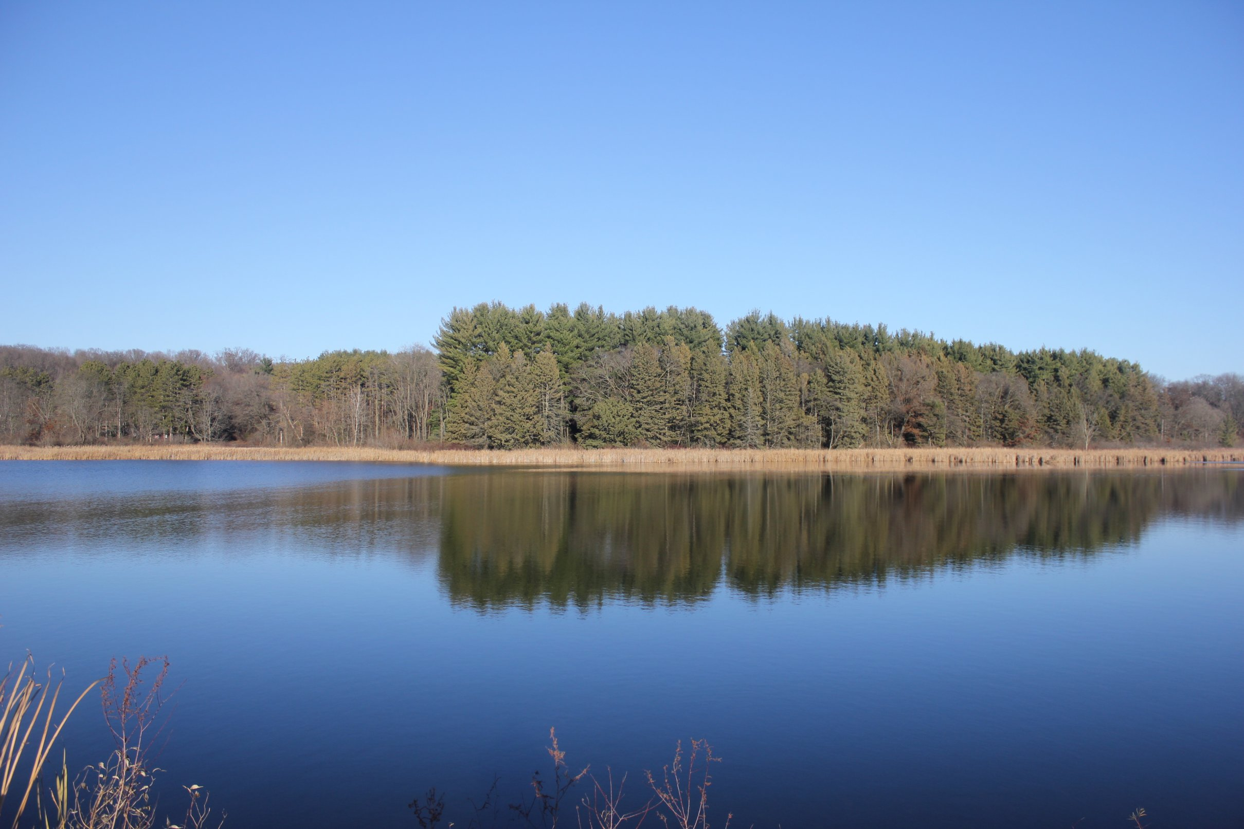 Looking across Lake Zander at Cadiz Springs State Park